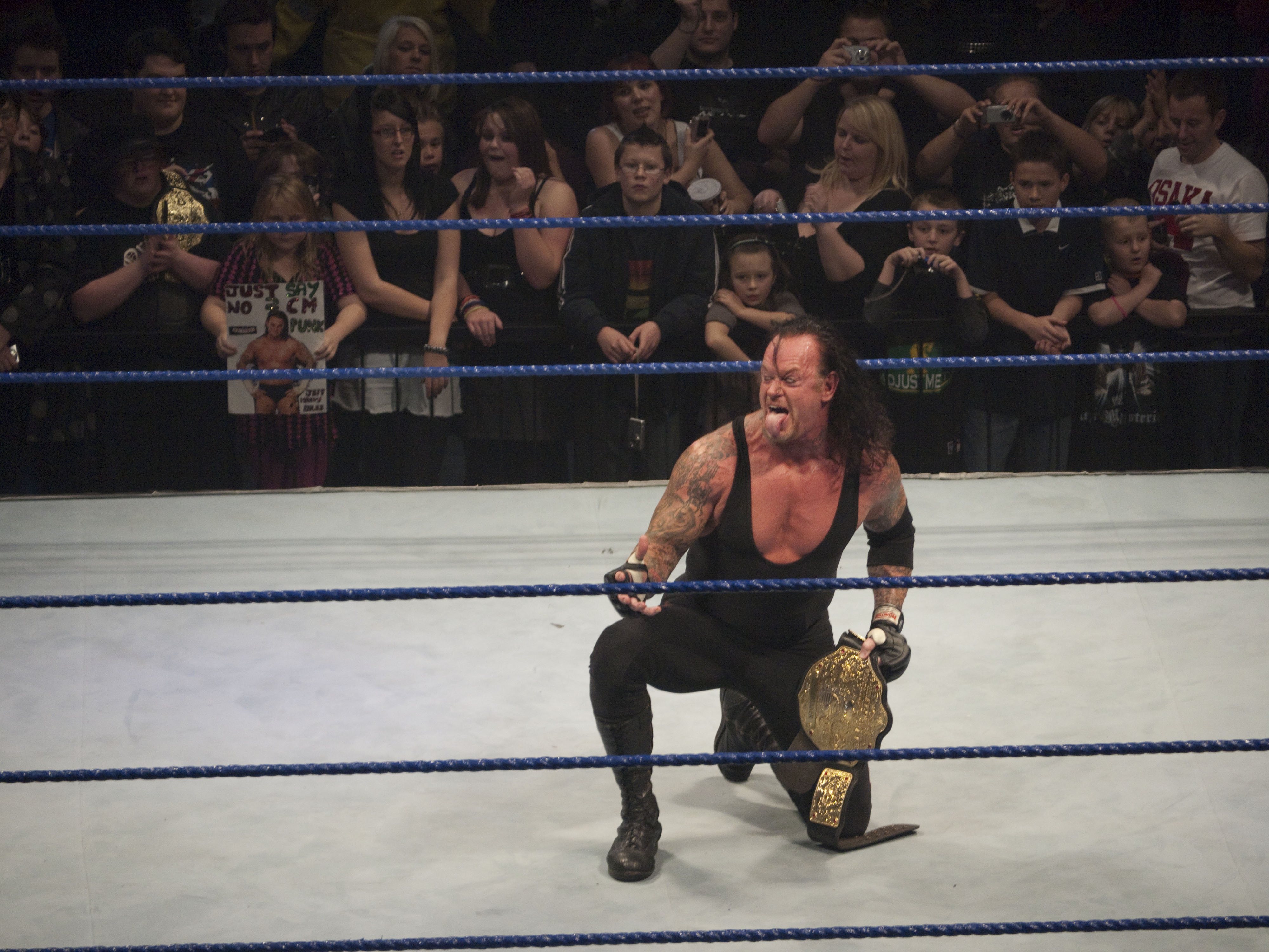 The Undertaker beats C.M. Punk in a Casket Match.